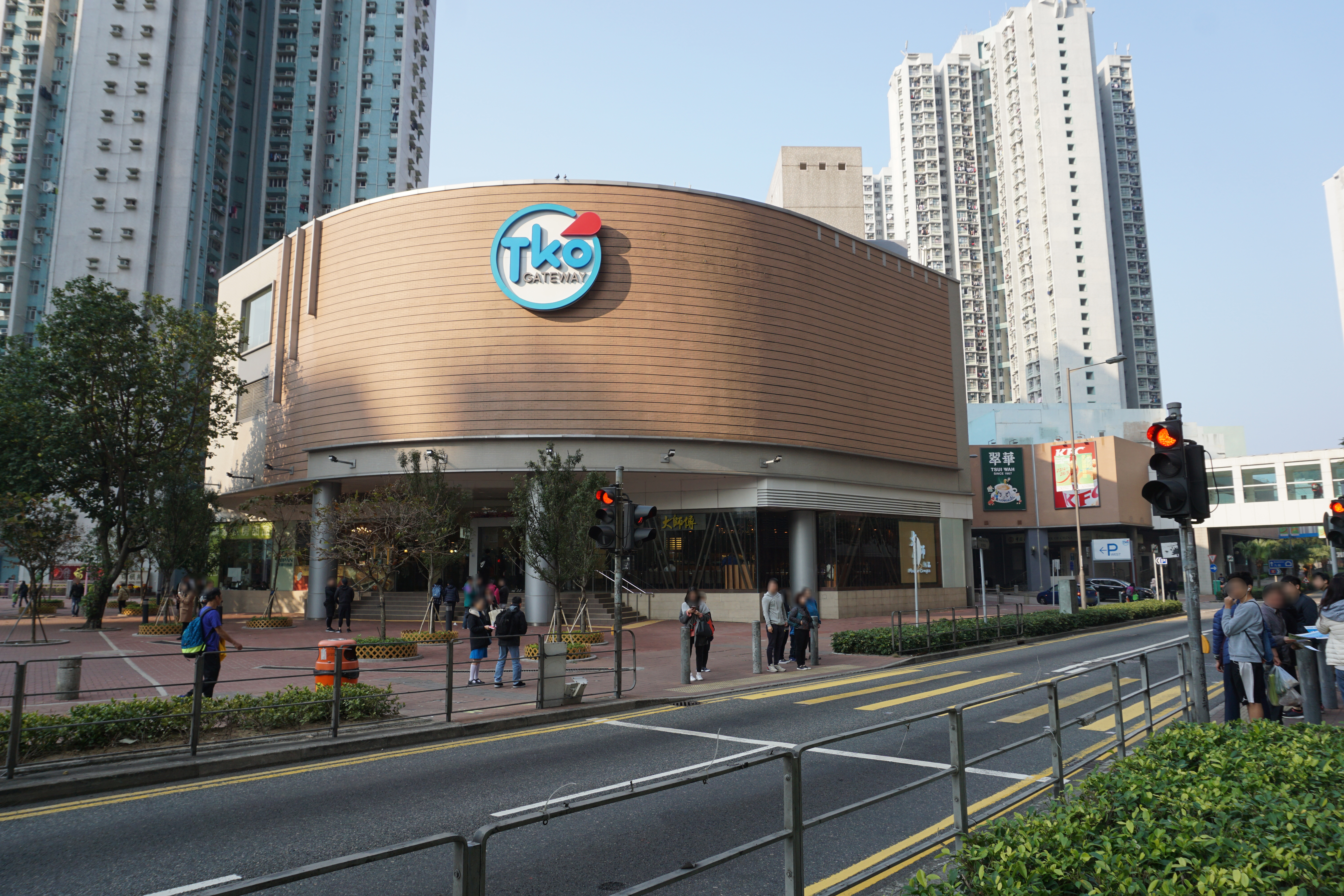 TKO Gateway in Hang Hau, Hong Kong.